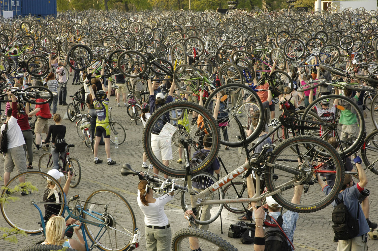 Final bike-raising at the April 22, 2006 Critical Mass rally in Budapest, Hungary